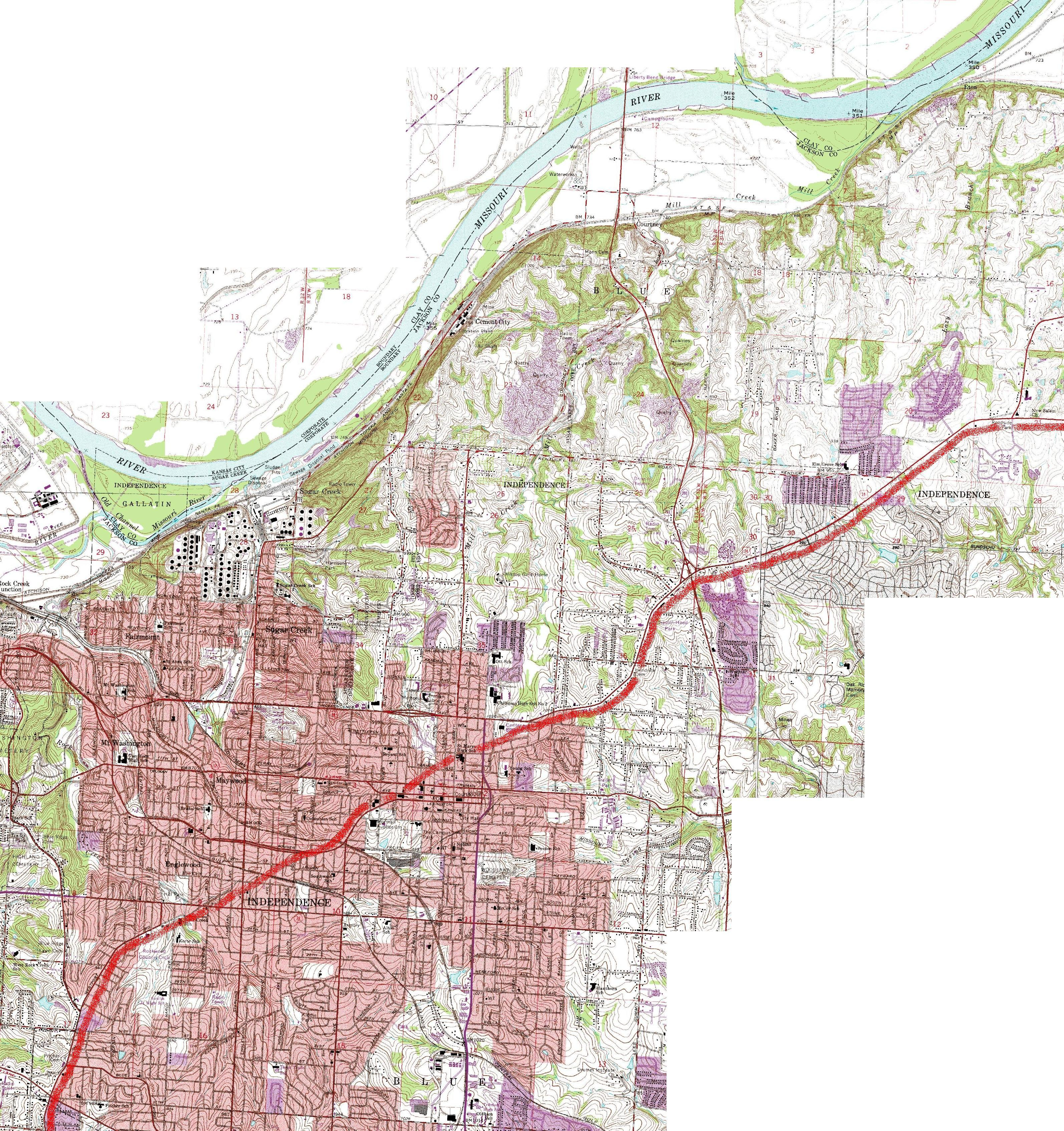 Topographical map of much of Independence, Missouri, showing roughly the route of the ancient "Great Osage [Indian] Trail" through the region. The trail originates near central Missouri, Boonville and Franklin, Missouri, followed the route of modern U.S. 24 highway, and portions of modern Lexington Street and Westport Road in Independence, Missouri (the curved portions of each street in modern Independence, Missouri).